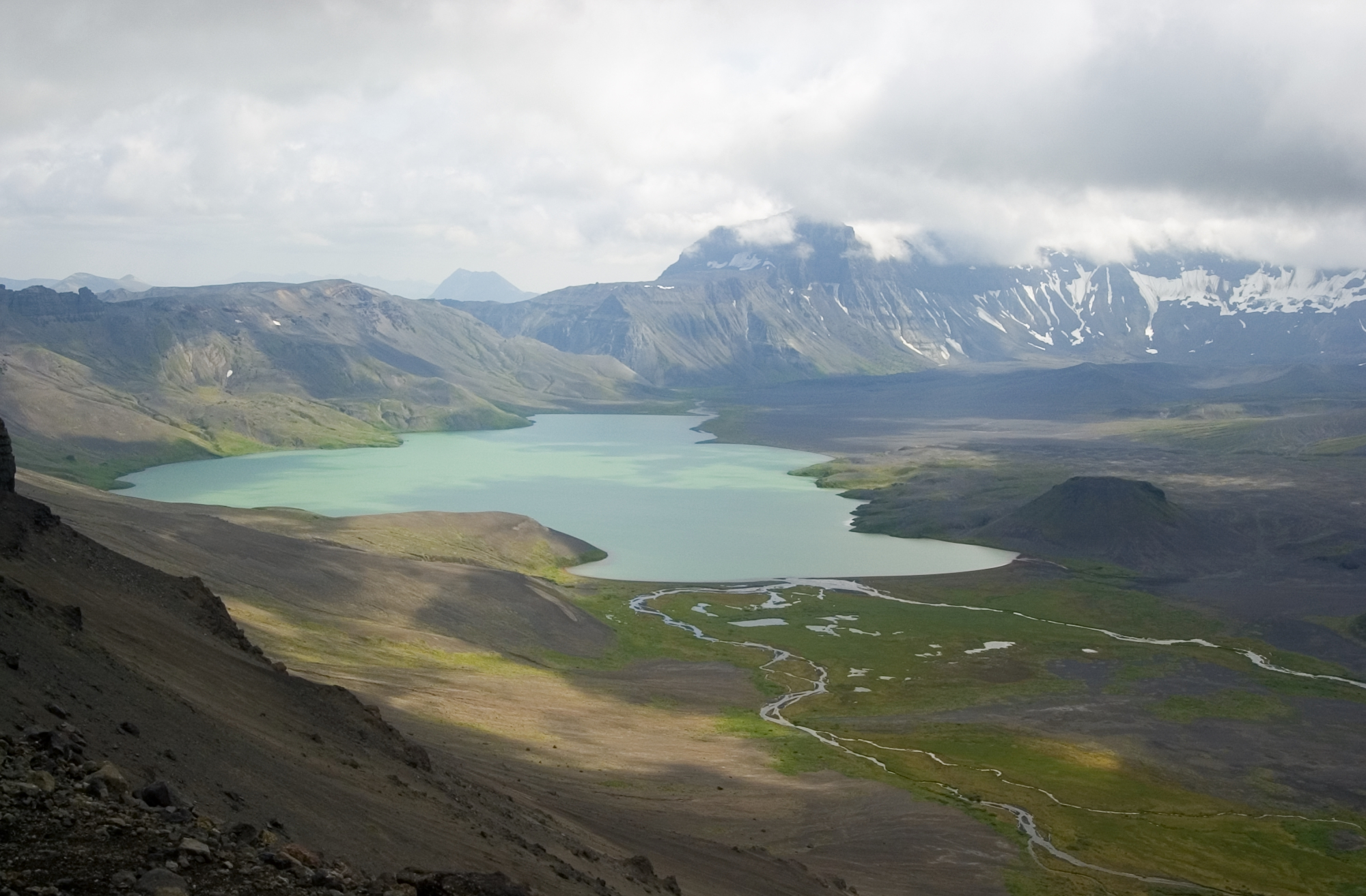 Caldera of Aniakchak Volcano, Aniakchak National Monument and Preserve, Alaska, USA. This image shows Surprise Lake inside the caldera from the crater rim.